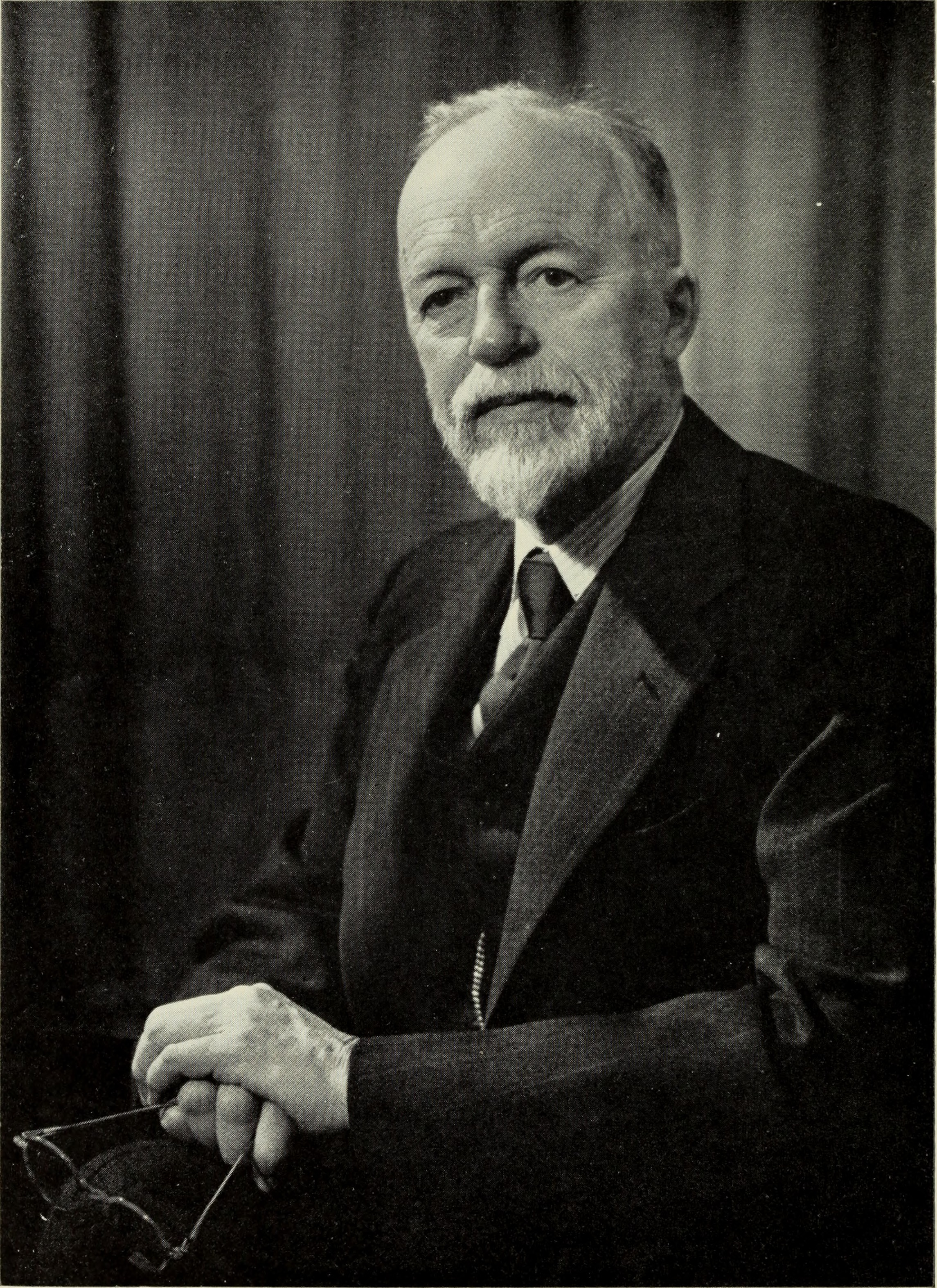 Title: Centennial of entomology in Canada, 1863-1963 : a tribute to Edmund M. Walker Year: 1966 (1960s) Authors: Wiggins, Glenn B; Royal Ontario Museum Subjects: Dymond, J. R. (John Richardson), 1887-1965; Walker, E. M. (Edmund Murton), 1877-1969; Entomologists; Entomology Publisher: Toronto : University of Toronto Press Text Appearing Before Image: ' Text Appearing After Image: Professor Edmund M. Walker, b.a., m.b., d.sc. (hon. causa), f.r.s.c.